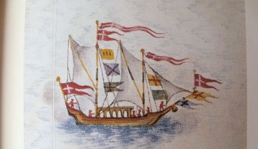 Coloured drawing from Frederick IV's Atlas showing Frederick's boat on Lake Esrum (1725-1790) which was stationed in Skipperhuset at Fredensborg Palace, Fredensborg, Denmark